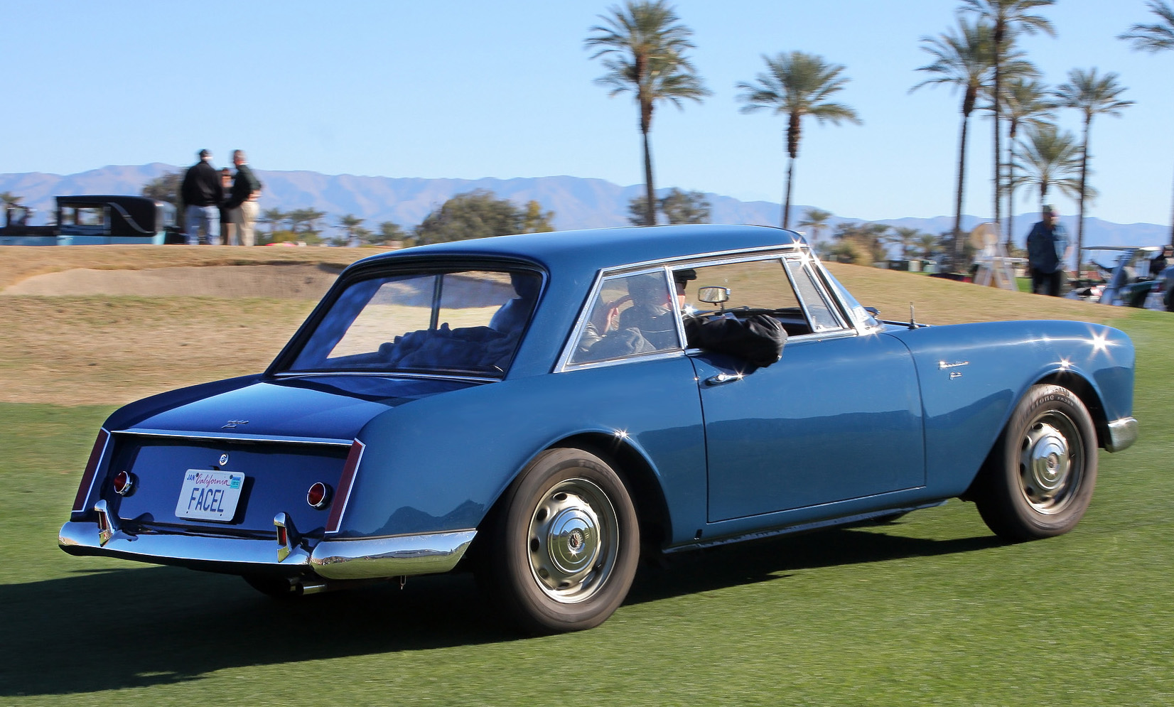 1961 Facel Vega Facellia F2 4-passenger Coupe with improved 4 cylinder engine at 2011 Desert Classic, La Quinta, CA